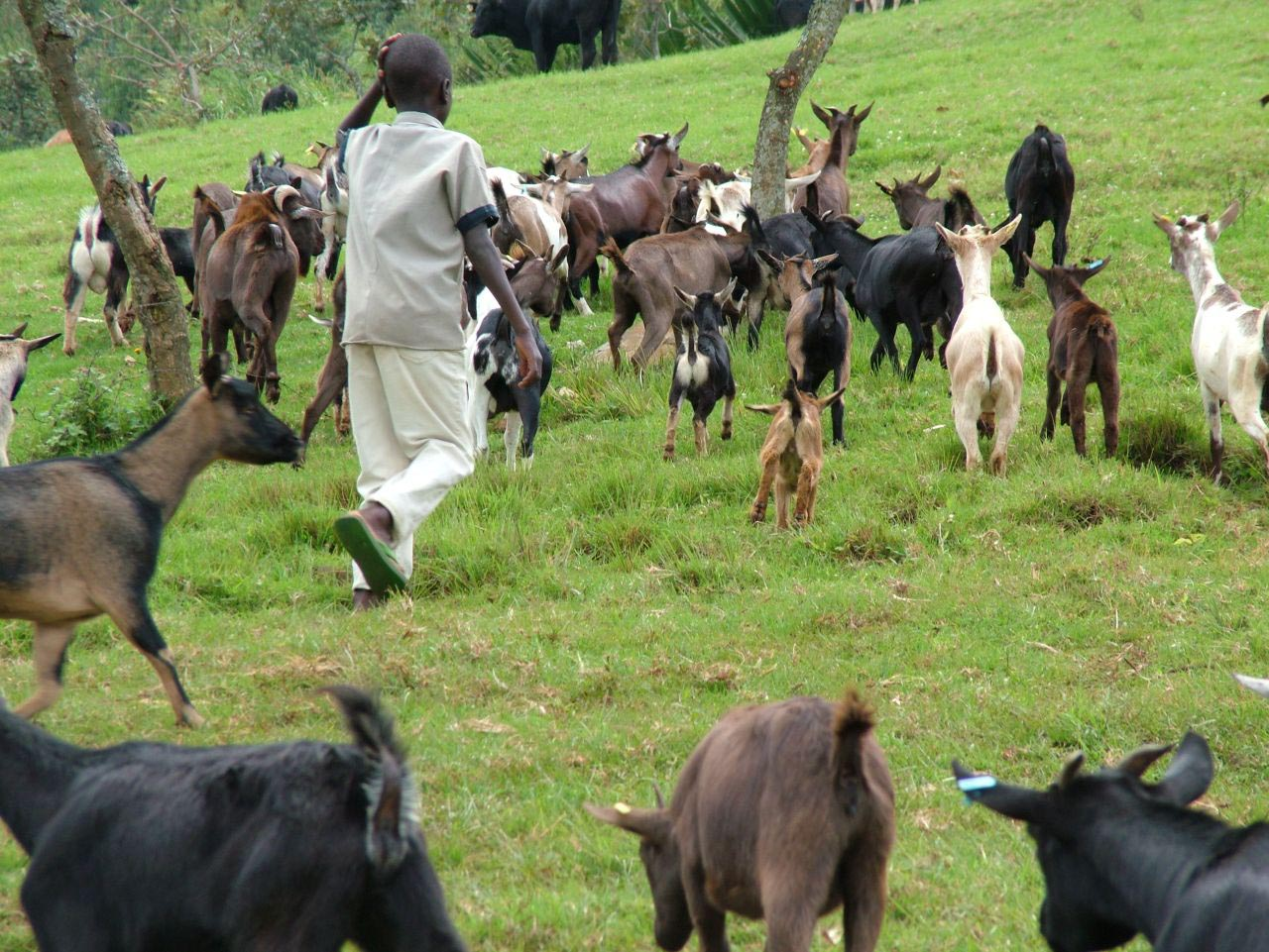 An USAID-supported animal husbandry training program in Congo.